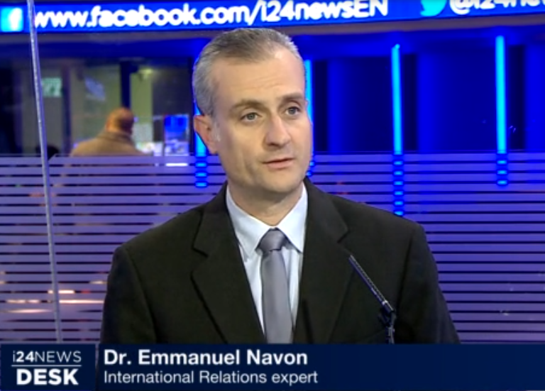 Emmanuel Navon speaking on i24News.